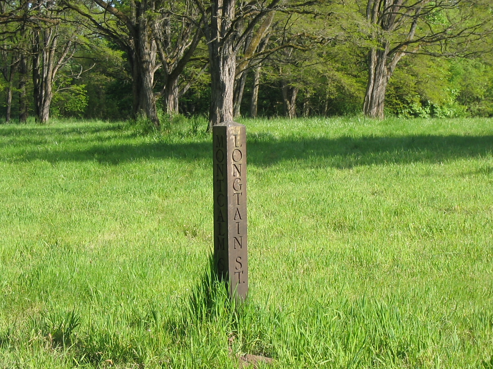 A wooden spike marks the former location of a street corner in the ghost town of Champoeg.